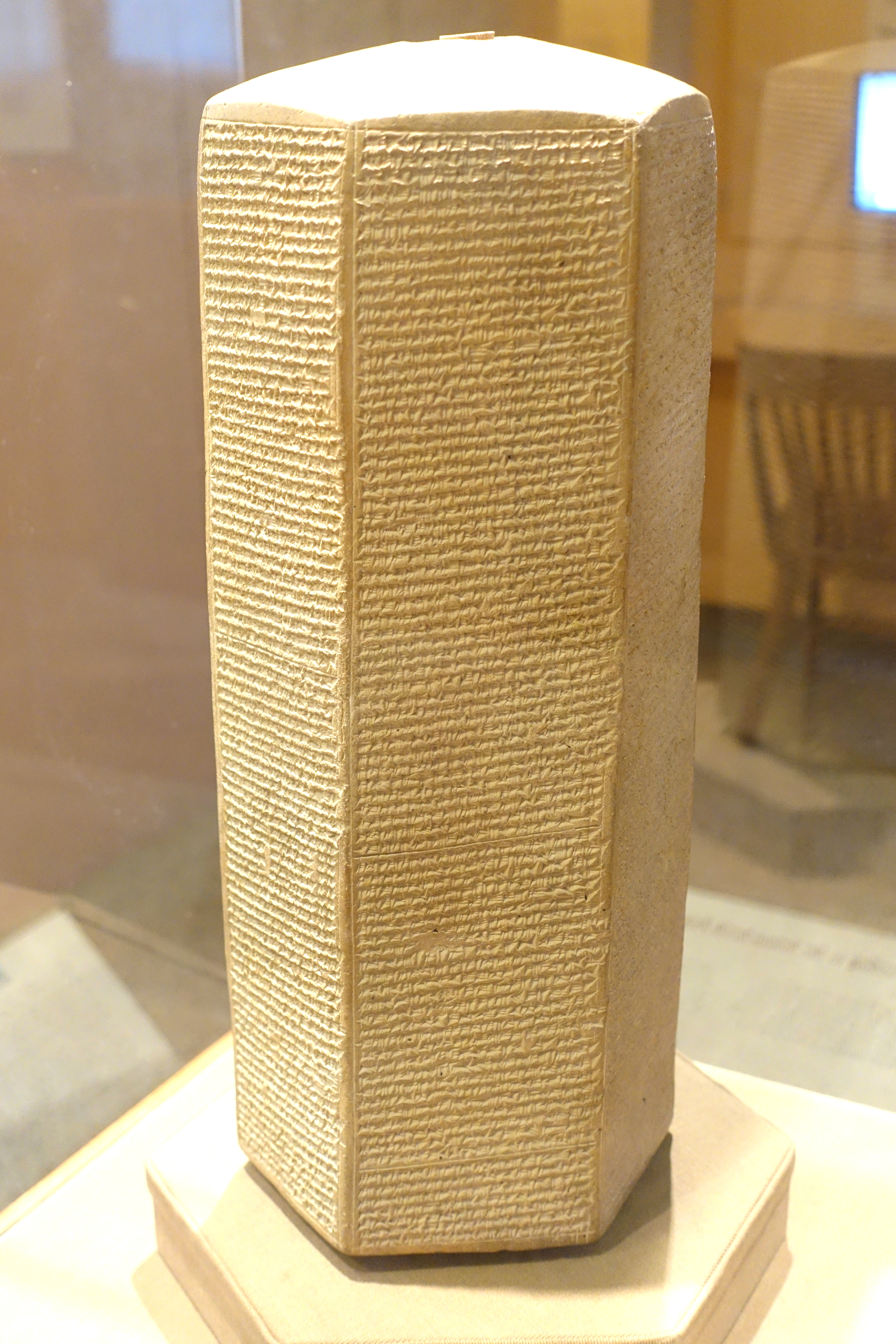 Exhibit in the Oriental Institute Museum, University of Chicago, Chicago, Illinois, USA. This work is old enough so that it is in the public domain.